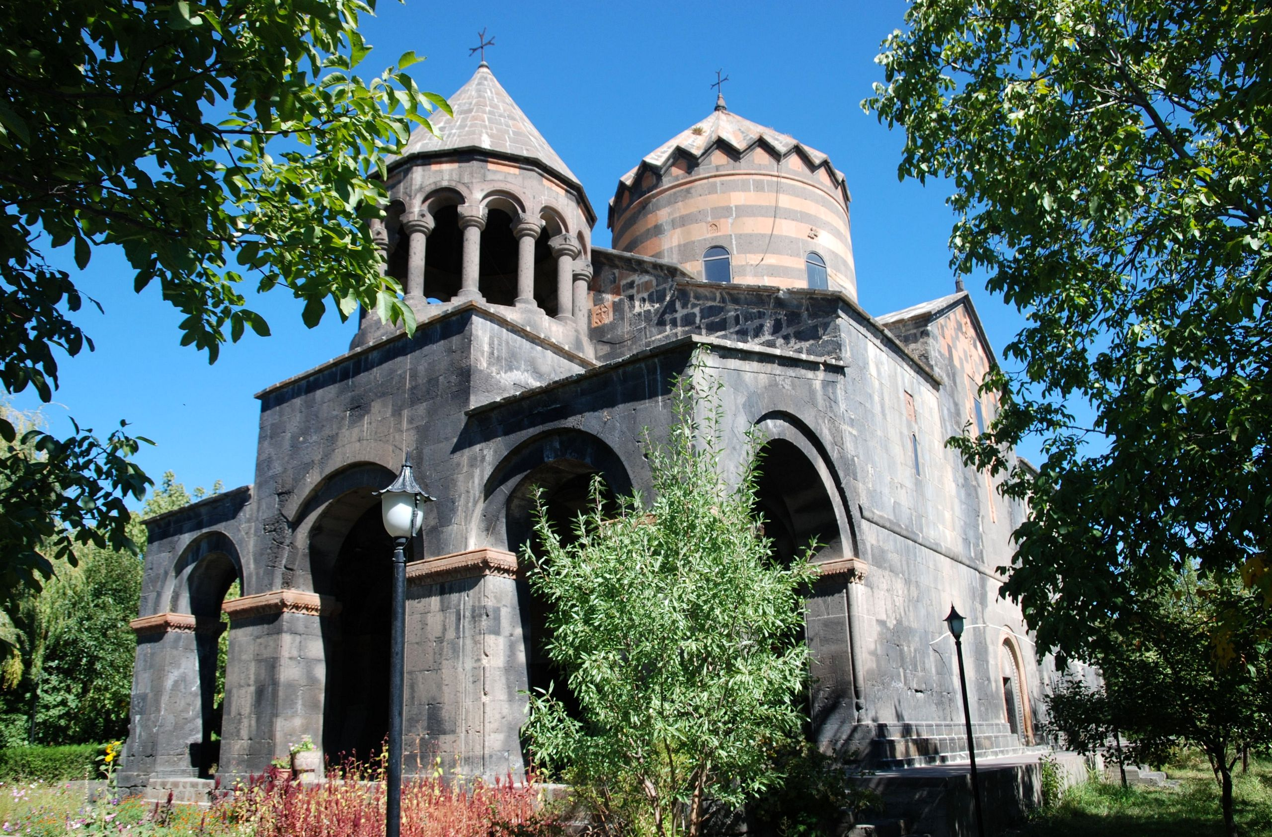 Mughni, near Ashtarak, church from southwest